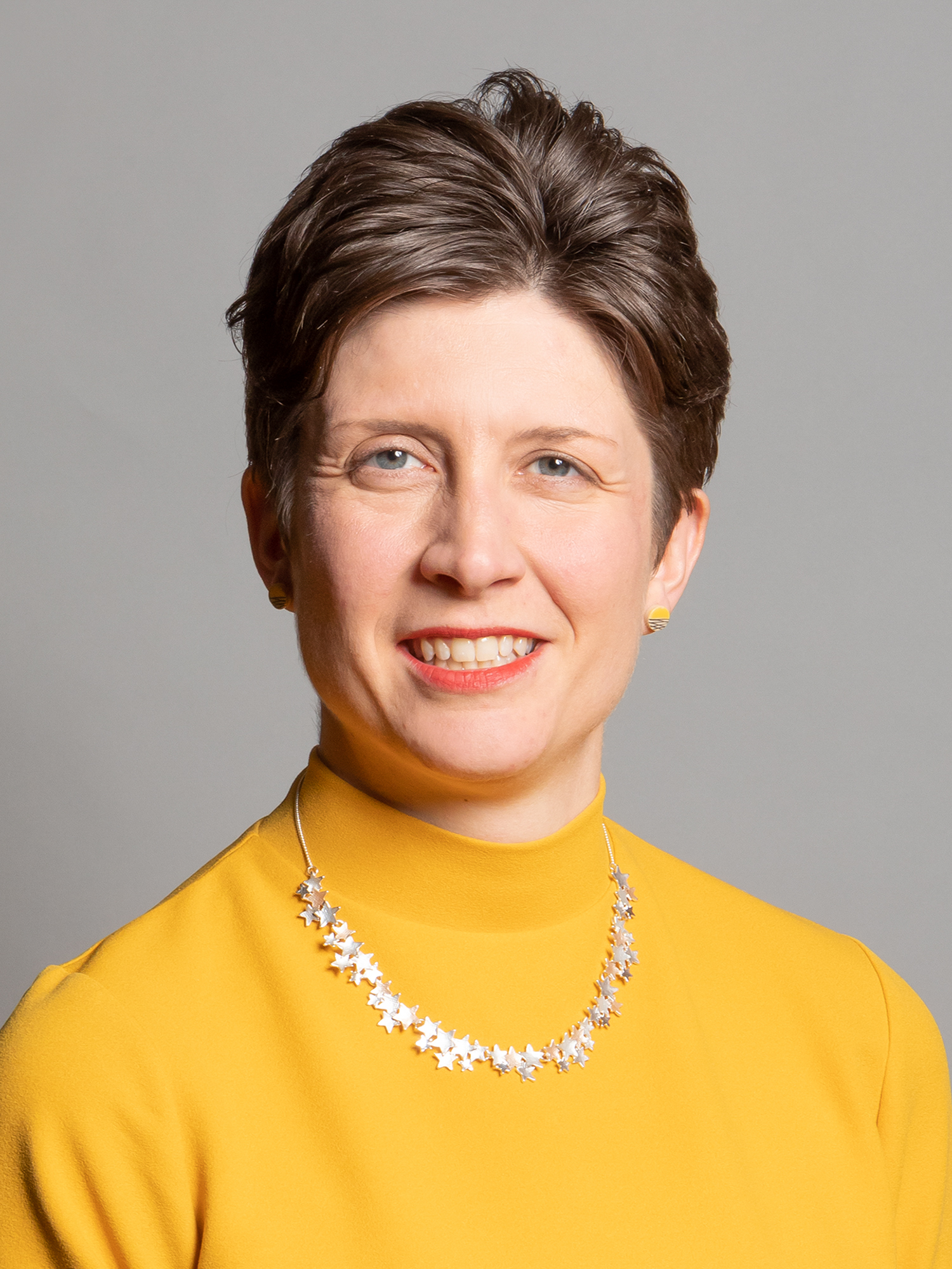 Official portrait of Alison Thewliss MP 3×4 portrait of Alison Thewliss